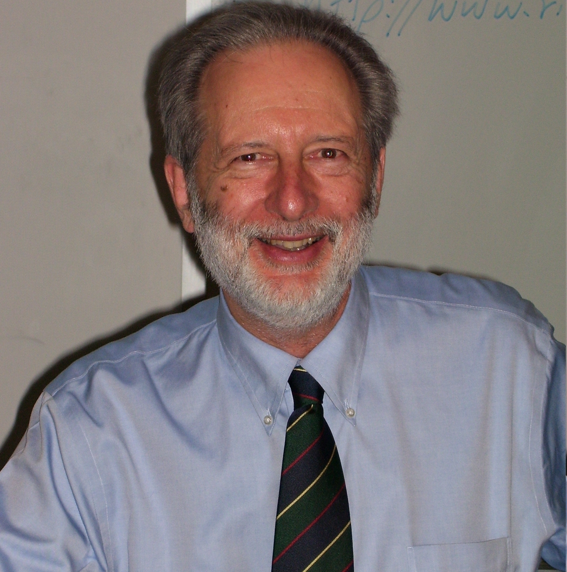 A picture of the philosopher Carl Mitcham smiling after a presentation.